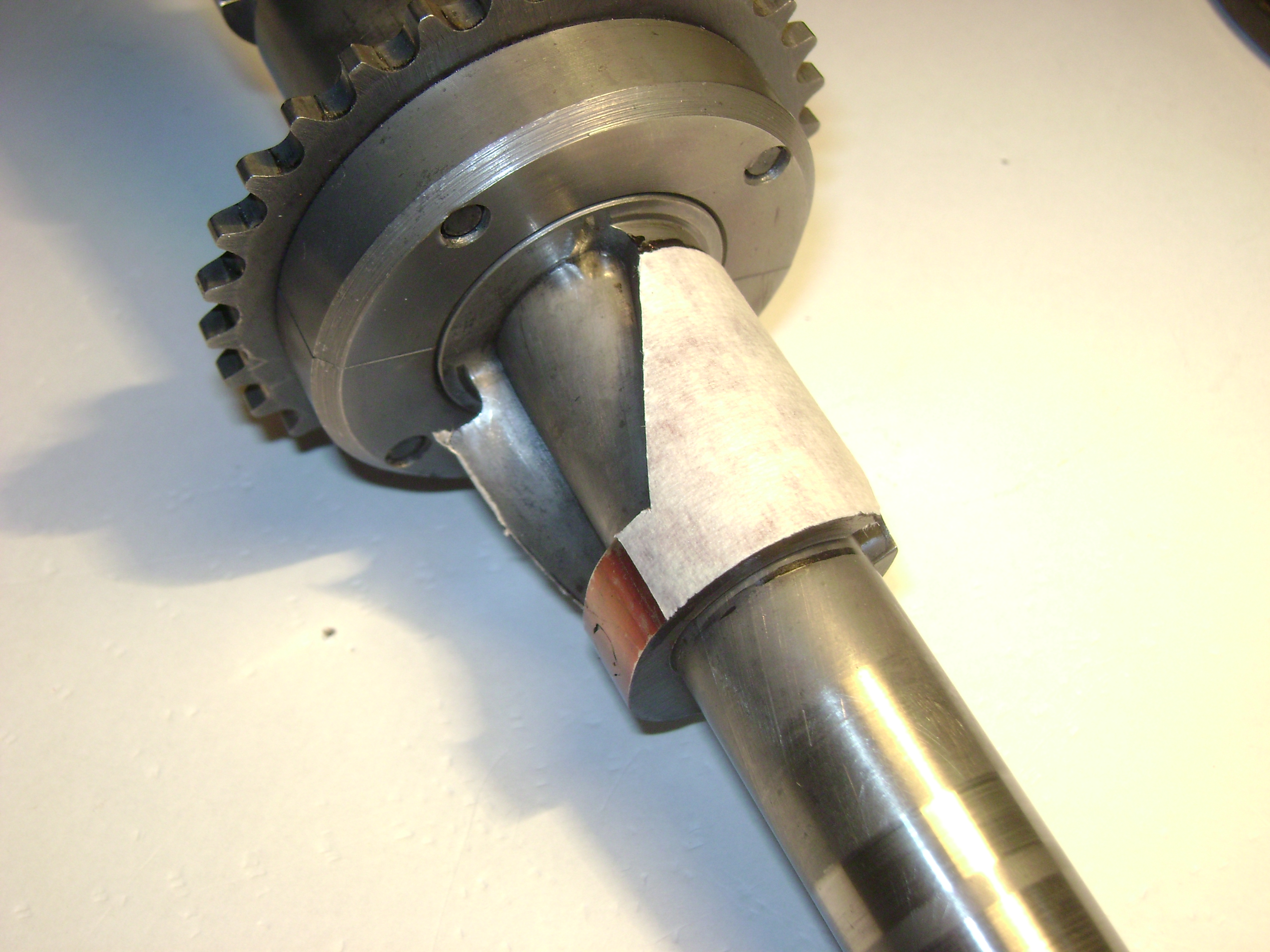 Suzuki GSX 250 helical camshaft. Area of constant base circle radius is marked by white masking tape.